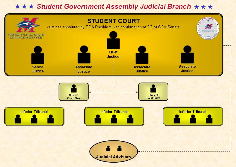 Structure of Metropolitan State College of Denver Student Government Assembly Judicial Branch